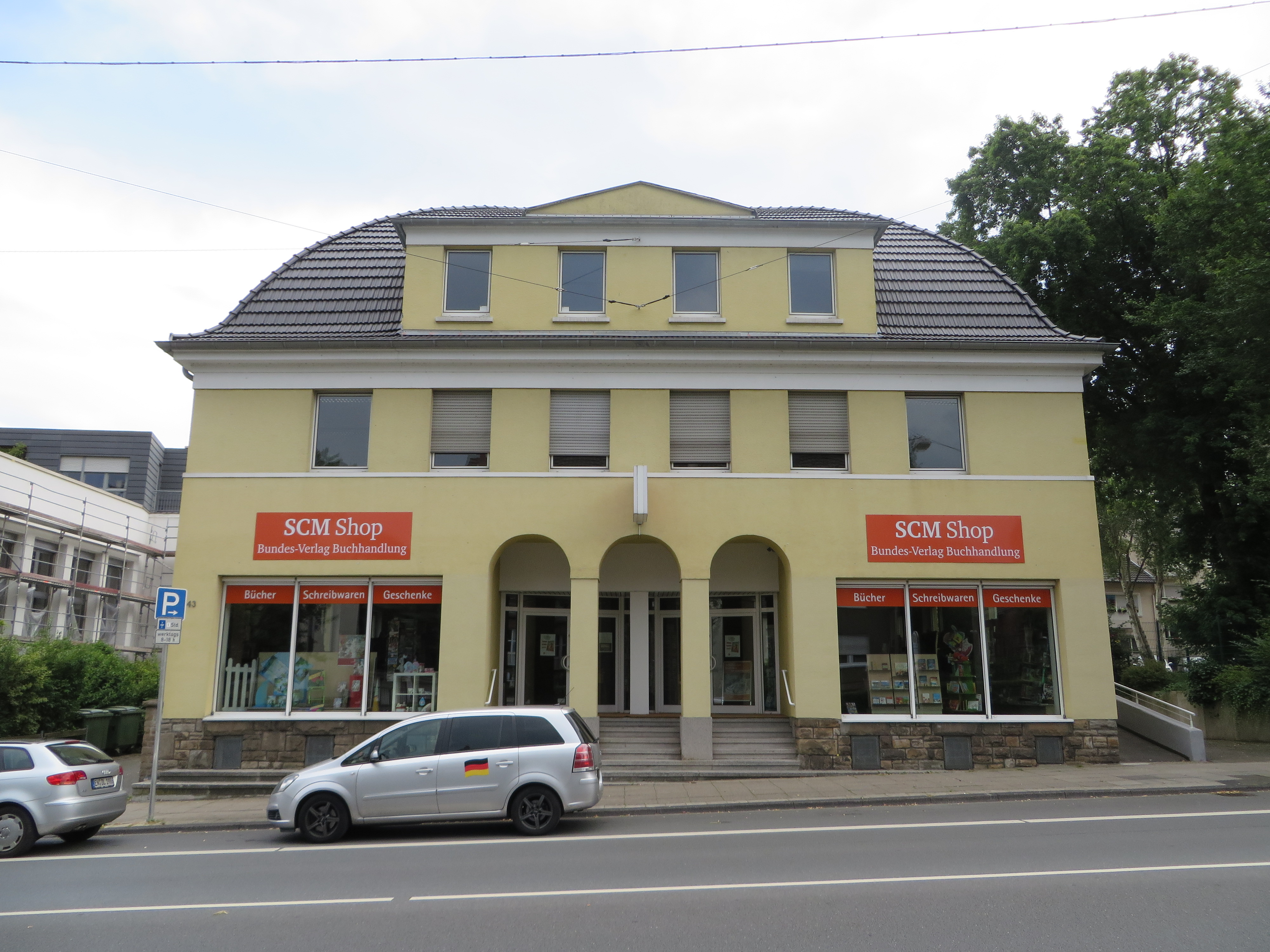 Bookshop and newsagent's shop SCM Shop in Witten, Germany